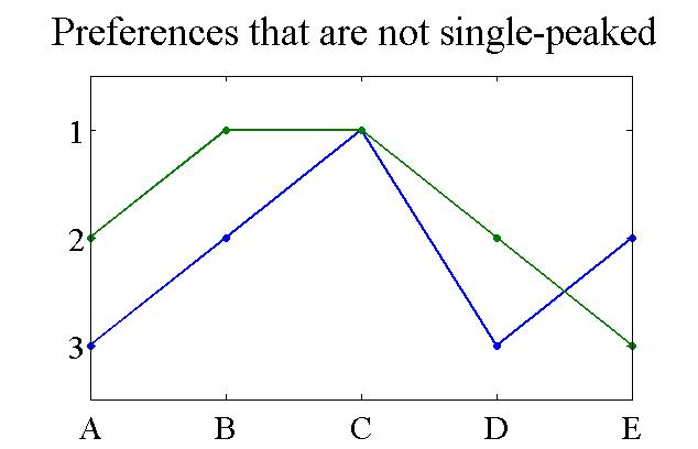 Graph with examples of preferences that are not single-peaked.